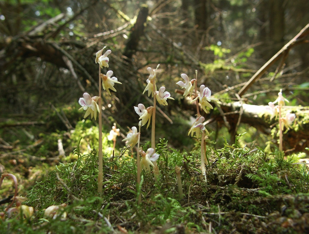 Epipogium aphyllum, plants